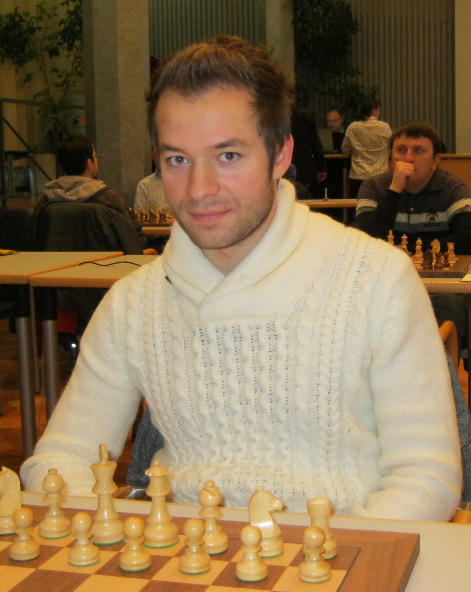 Ilja Zaragatski, chess player from Germany